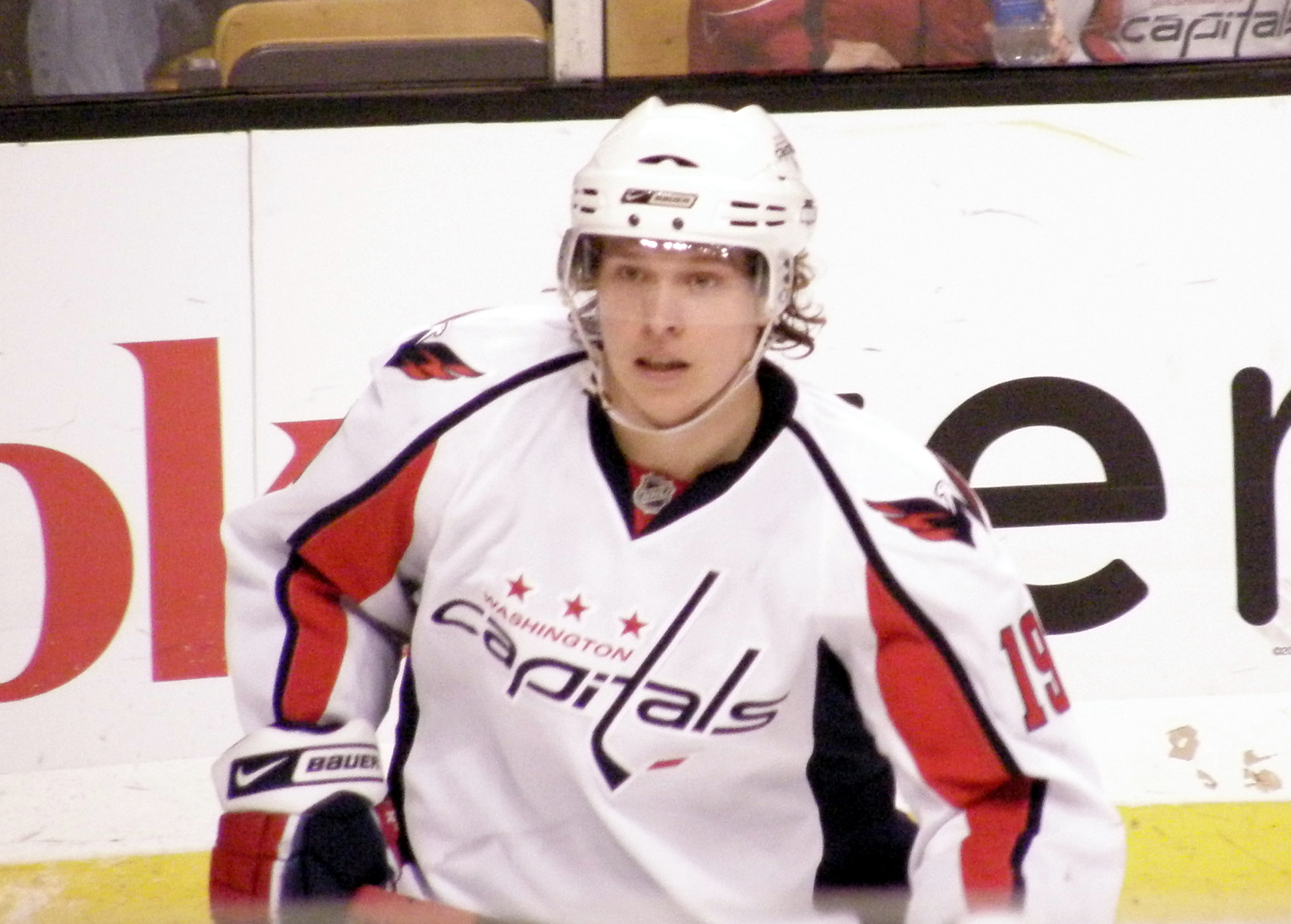 #19 Nicklas Backstrom